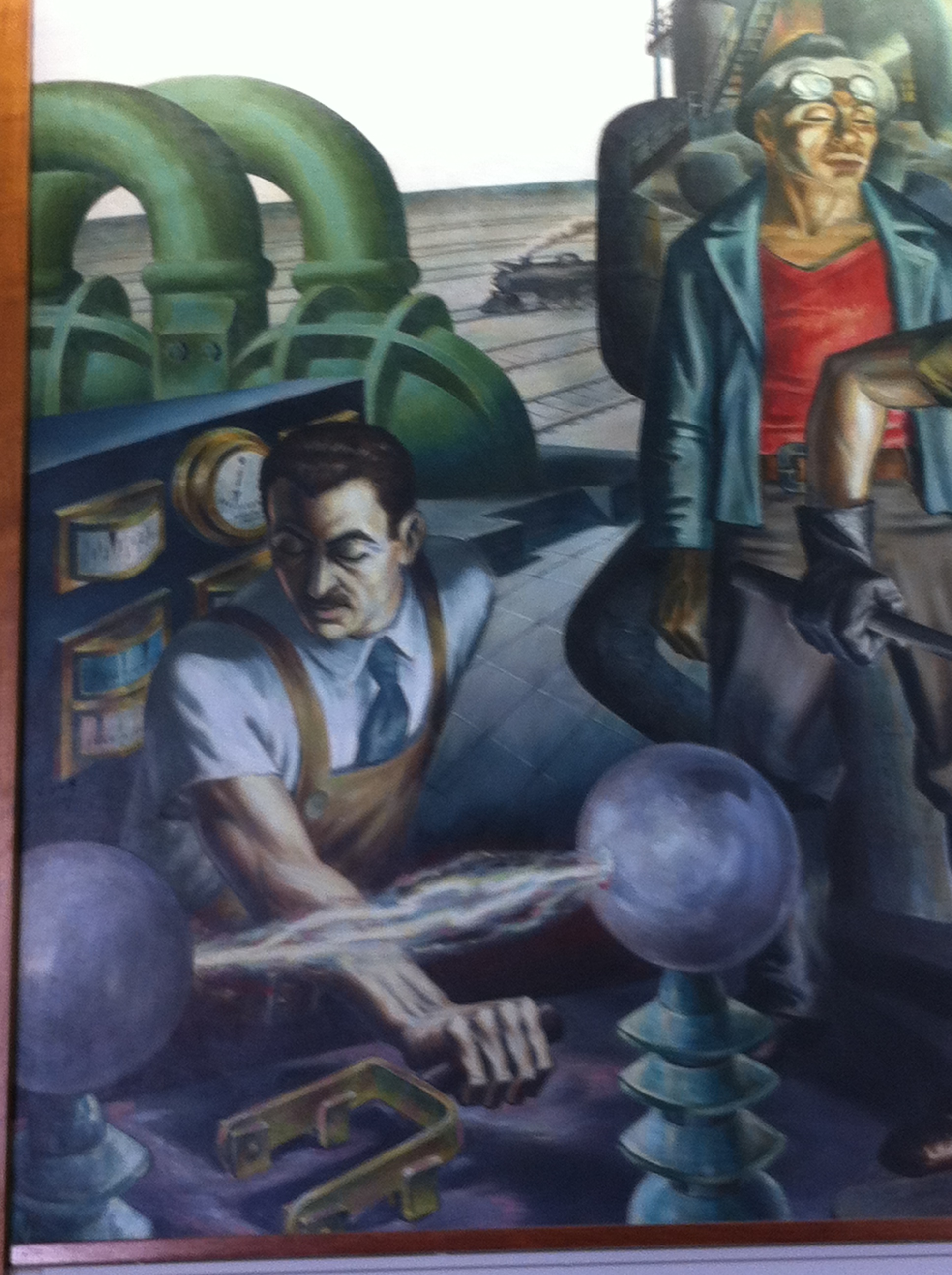 Muralist, Harry Sternberg, has used his image to depict a scientist in his mural "Chicago:Epoch of a Great City"